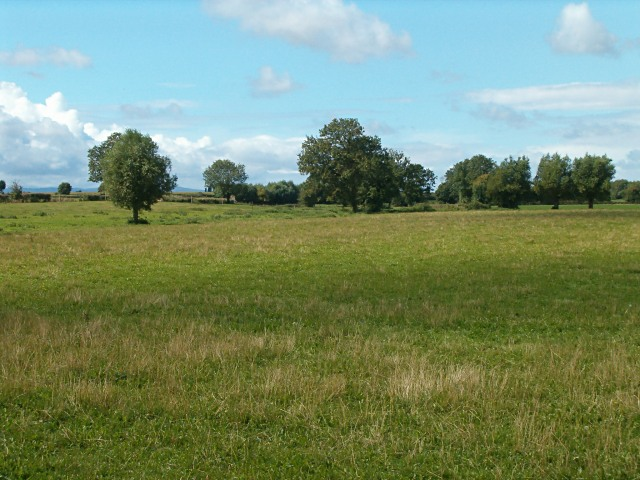 A Levels landscape